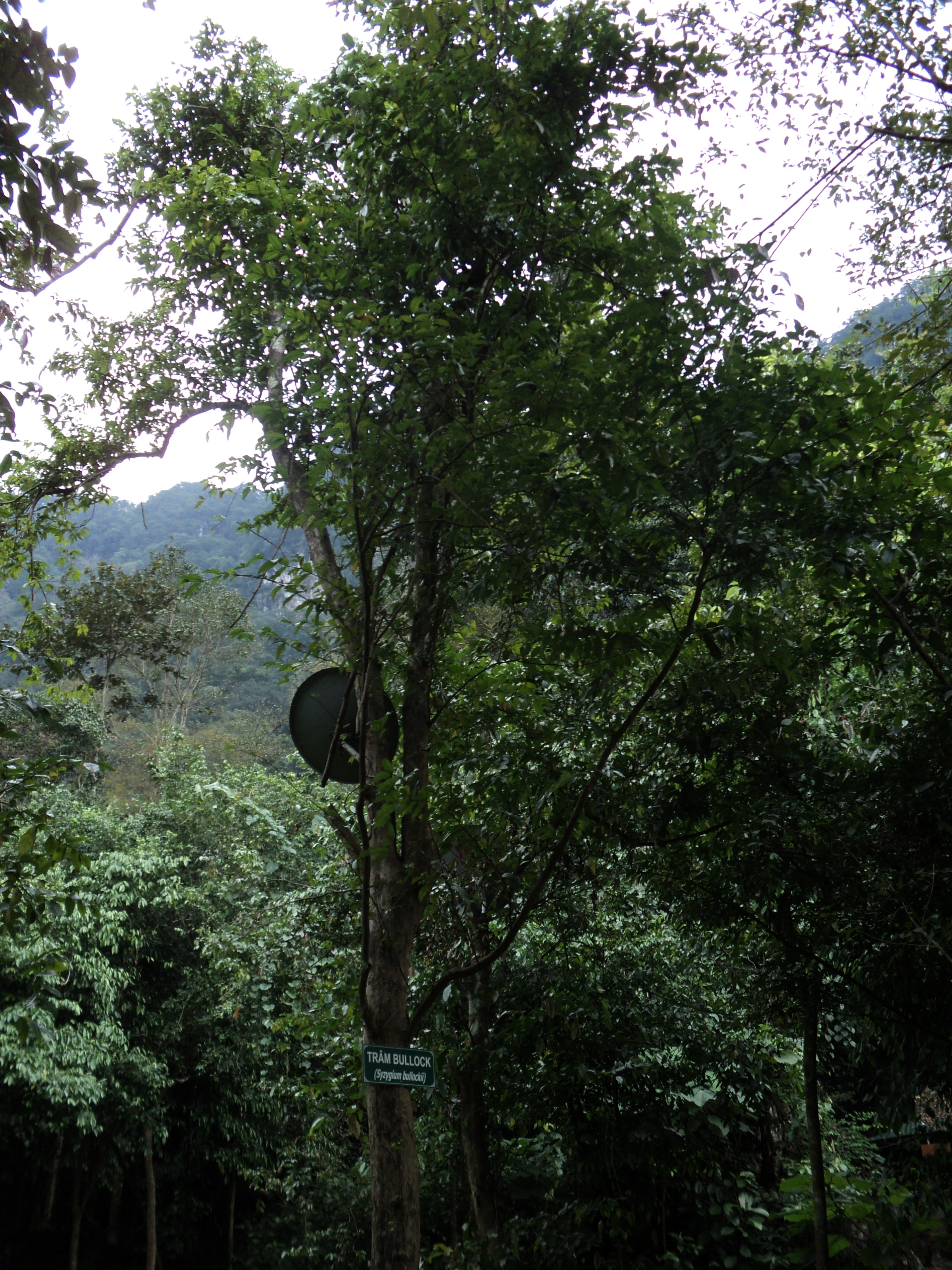 Syzygium bullockii